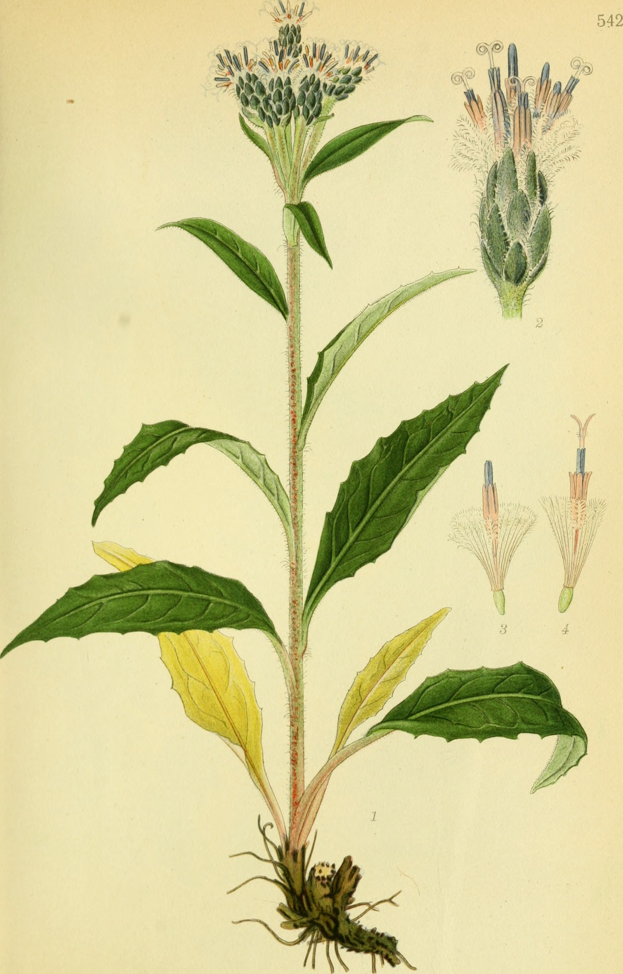 Title: Billeder af nordens flora Year: 1917 (1910s) Authors: Mentz, August, 1867-1944; Ostenfeld, C. H. (Carl Hansen), 1873-1931 Subjects: Plants; Plants; Plants Publisher: København, G. E. C. Gad's forlag Text Appearing Before Image: ' Text Appearing After Image: FJÆLD-SKÆR, saussurea alpina.